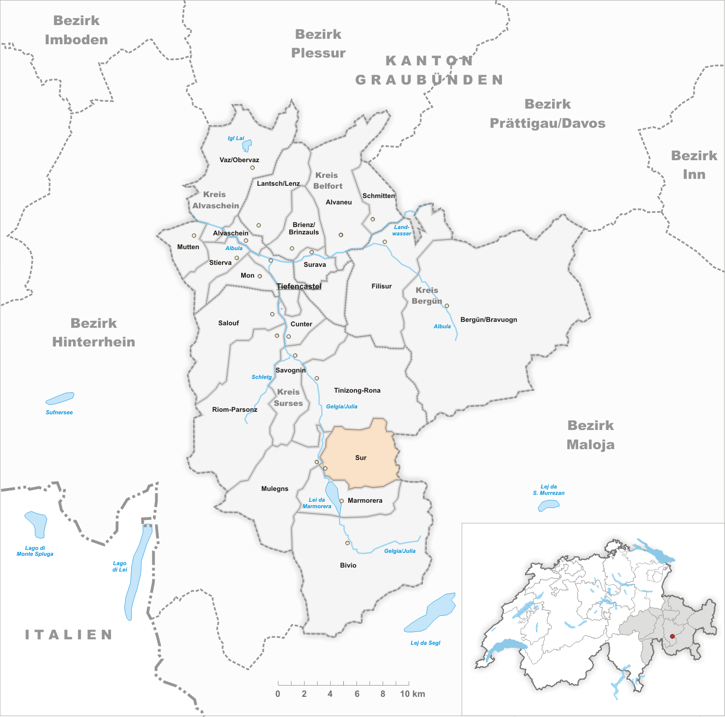 Municipality Sur